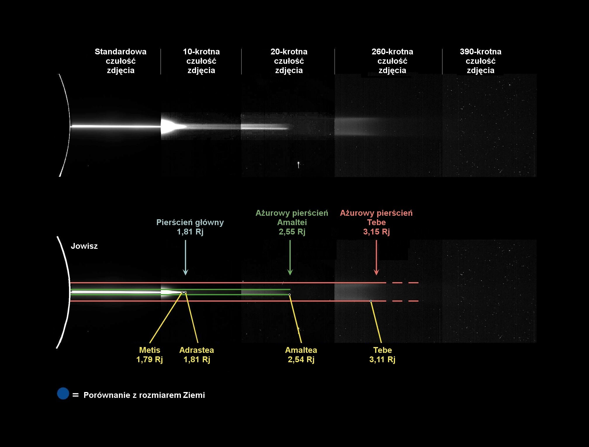 The mosaic of Galileo images of jovian rings with an explaining scheme in Polish language. From [1] Category:Jupiter